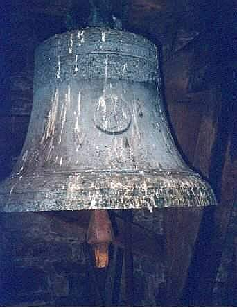 bell in Skorotice